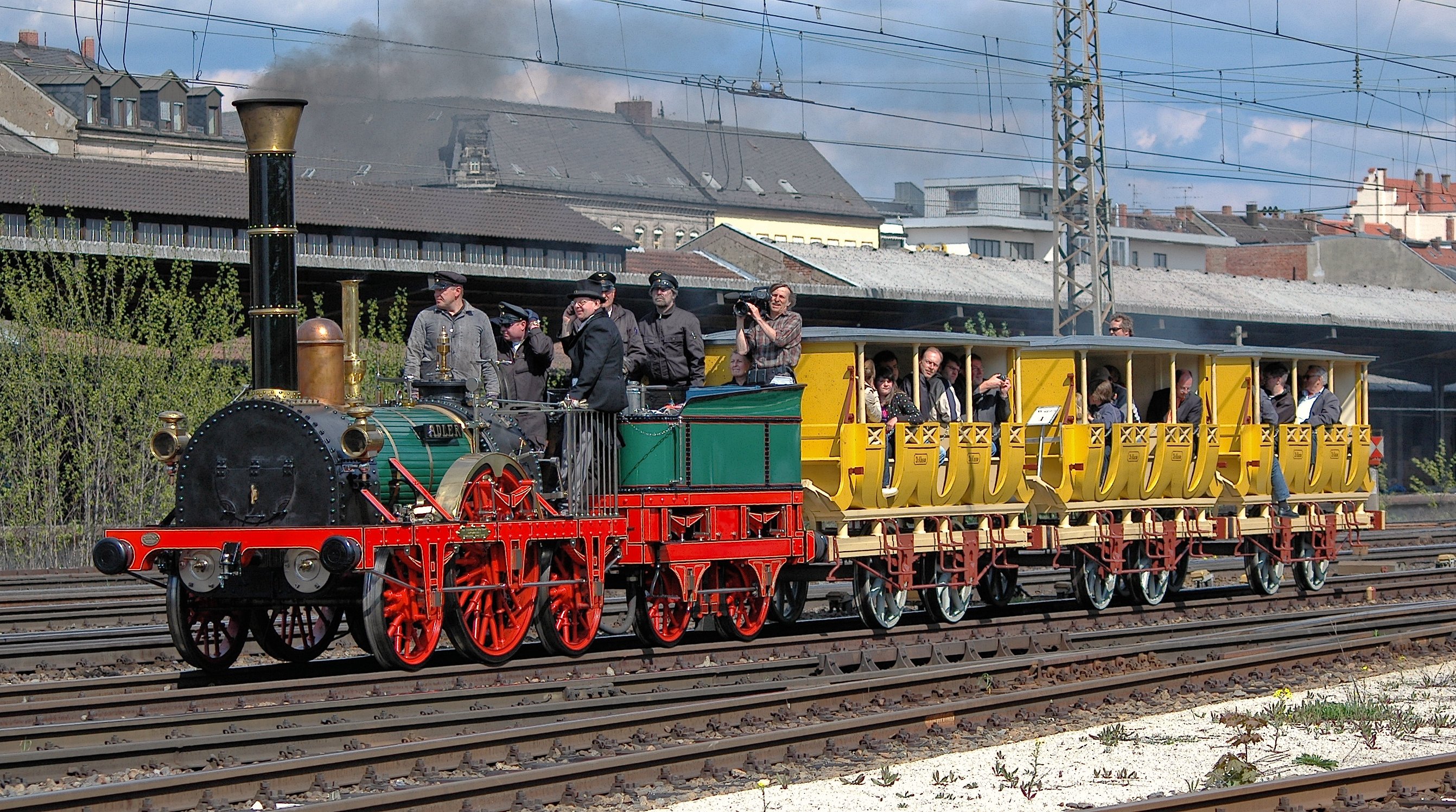 Replica of Adler, the first German locomotive